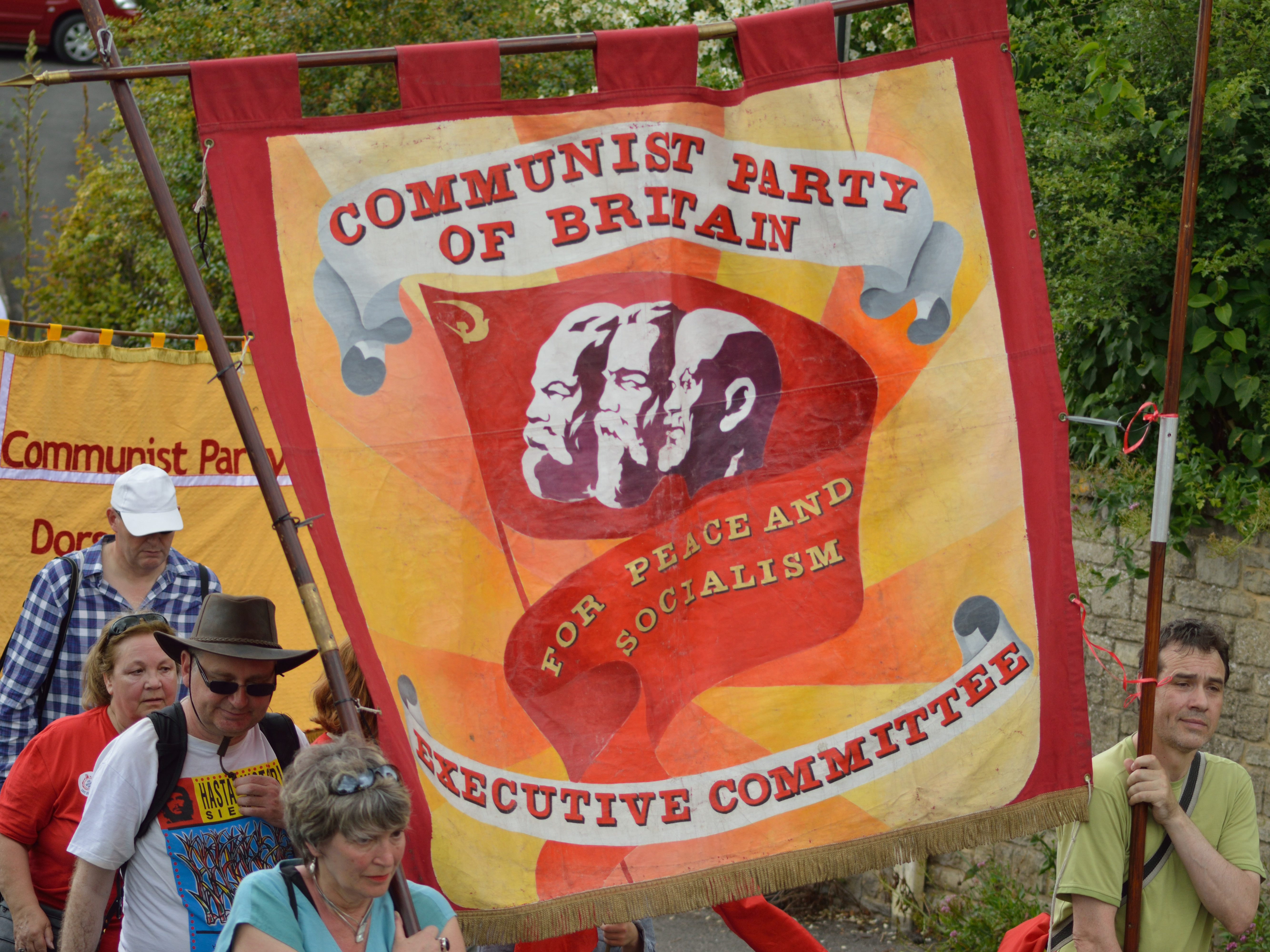 Communist Party of Britain Executive Committee banner in the 2016 Tolpuddle Martyrs' Rally.